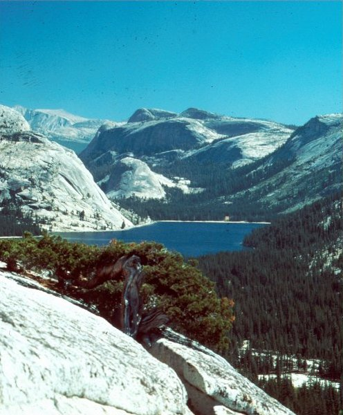 USGS Photo of Tenaya Lake, in Yosemite National Park, United States. Cover photograph of "Geologic Story of Yosemite"